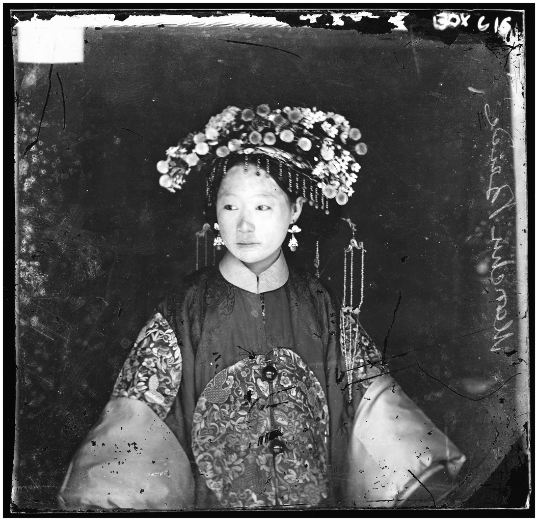 This photograph by the great Scottish traveler, geographer, and photographer John Thomson (1837-1921) shows a young woman of the Manchu ethnic group in her wedding dress. She is dressed in a richly embroidered costume and a large floral headdress with tassels. Her face is powdered white. As an ethnographer, Thomson took many photographs of brides in lavish costumes, but he also expressed a gloomy view of the brides’ future lives, which he compared to slavery. "No Manchu maiden can be betrothed until she is fourteen years of age. Usually some elderly woman is employed as a go-between to arrange a marriage, and four primary rules exist to guide the matron. First the lady must be amiable. Secondly she must be a woman of few words. Thirdly she must be of industrious habits, and lastly she must neither want a limb nor an eye and indeed she must be moderately good-looking." Thomson also wrote that the wife “is even liable to be beaten by her mother-in-law, and husband too, if she neglects to discharge her duties as general domestic drudge.” Thomson’s collection of more than 600 glass negatives, made between 1868 and 1872, was acquired by Henry S. Wellcome in 1921. Brides; Costumes; Manchus; Portrait photographs; Weddings; Women